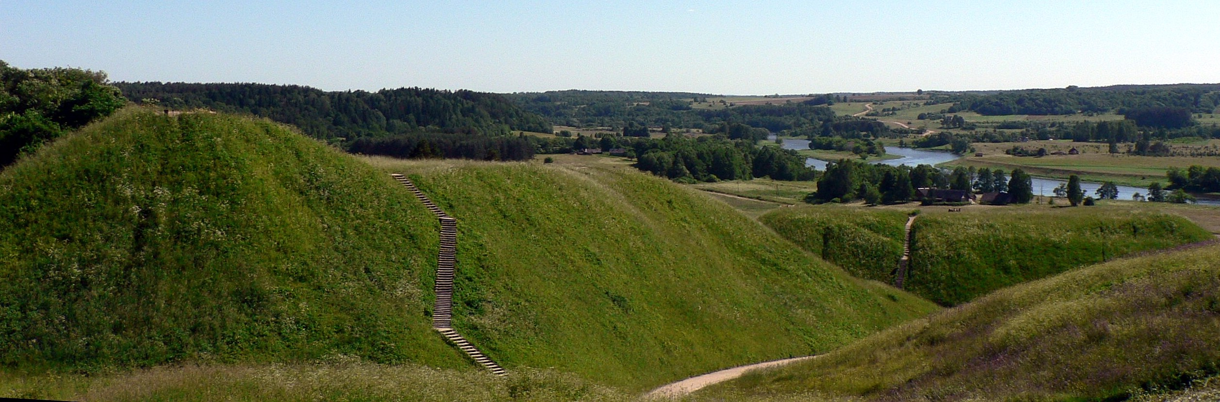 Pajauta Valley, Neris and old hillfort mounds near Kernave, Lithuania.